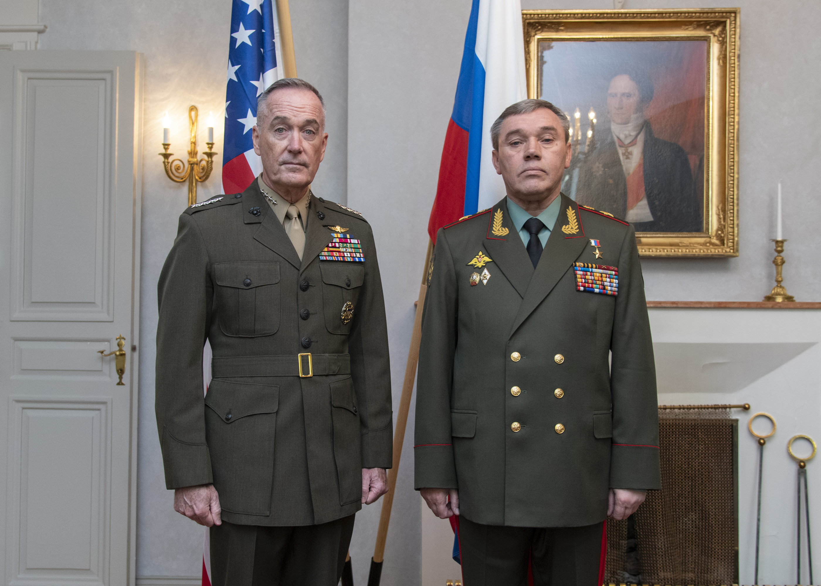 Marine Corps Gen. Joe Dunford, chairman of the Joint Chiefs of Staff, meets with Russian Army Gen. Valery Gerasimov, Chief of the General Staff of the Armed Forces of Russia, at Königstedt Manor in Helsinki, Finland, June 8, 2018. (DOD photo by Navy Petty Officer 1st Class Dominique A. Pineiro)